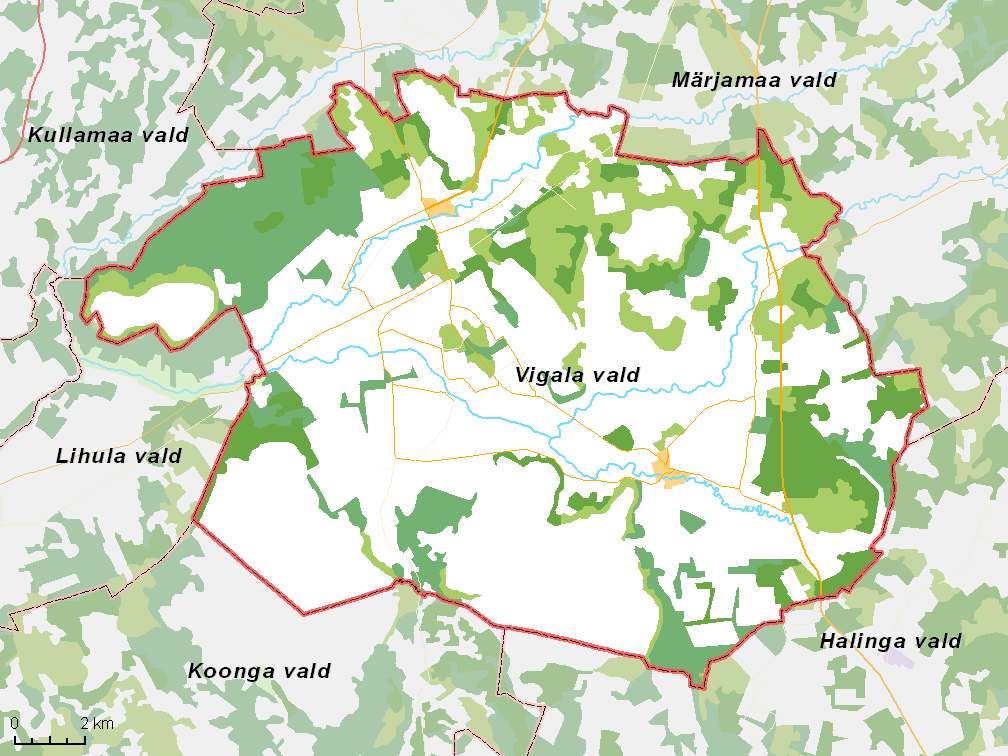 Map of municipality in Estonia